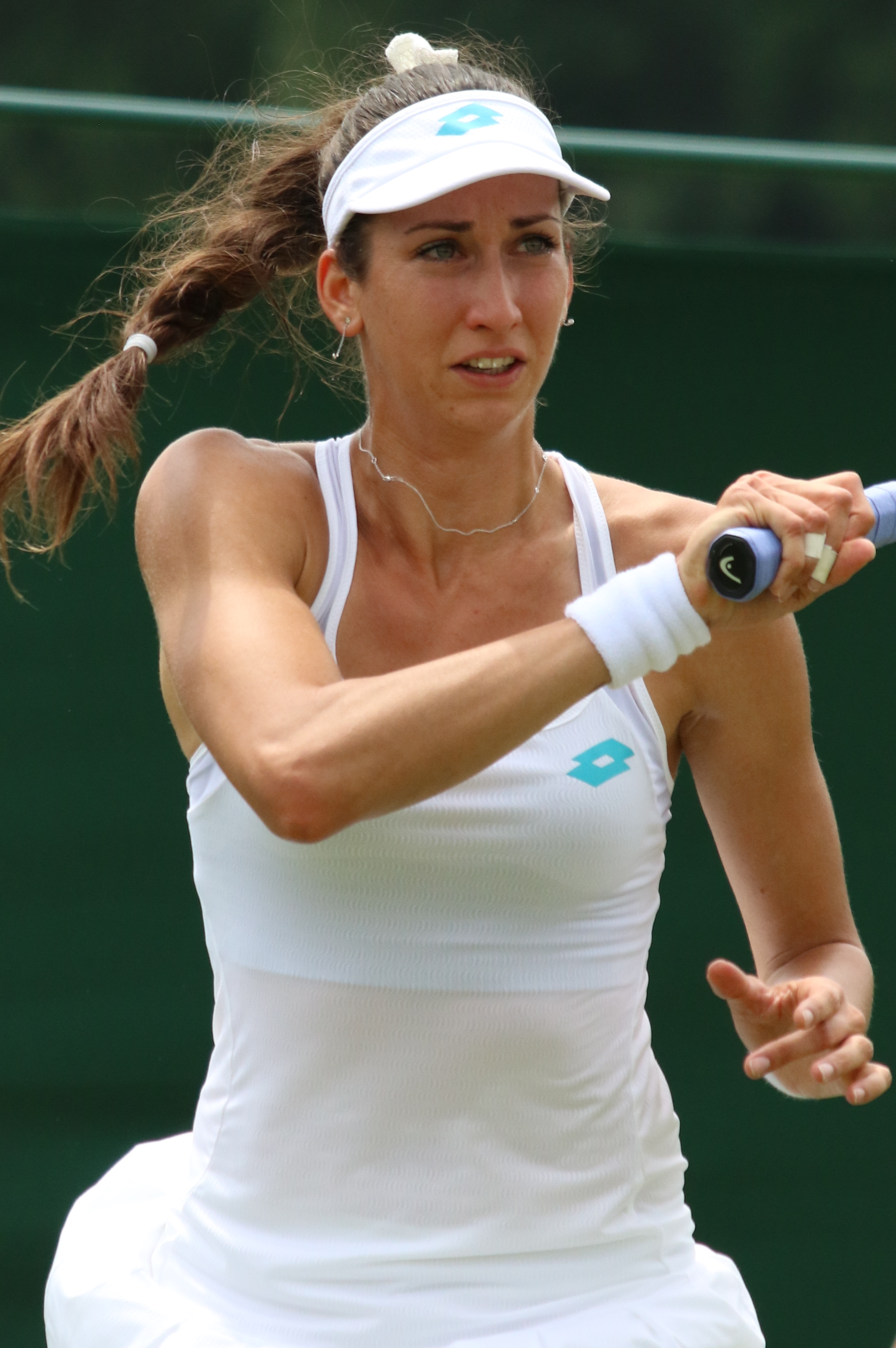 2019 Wimbledon Qualifying Tournament.